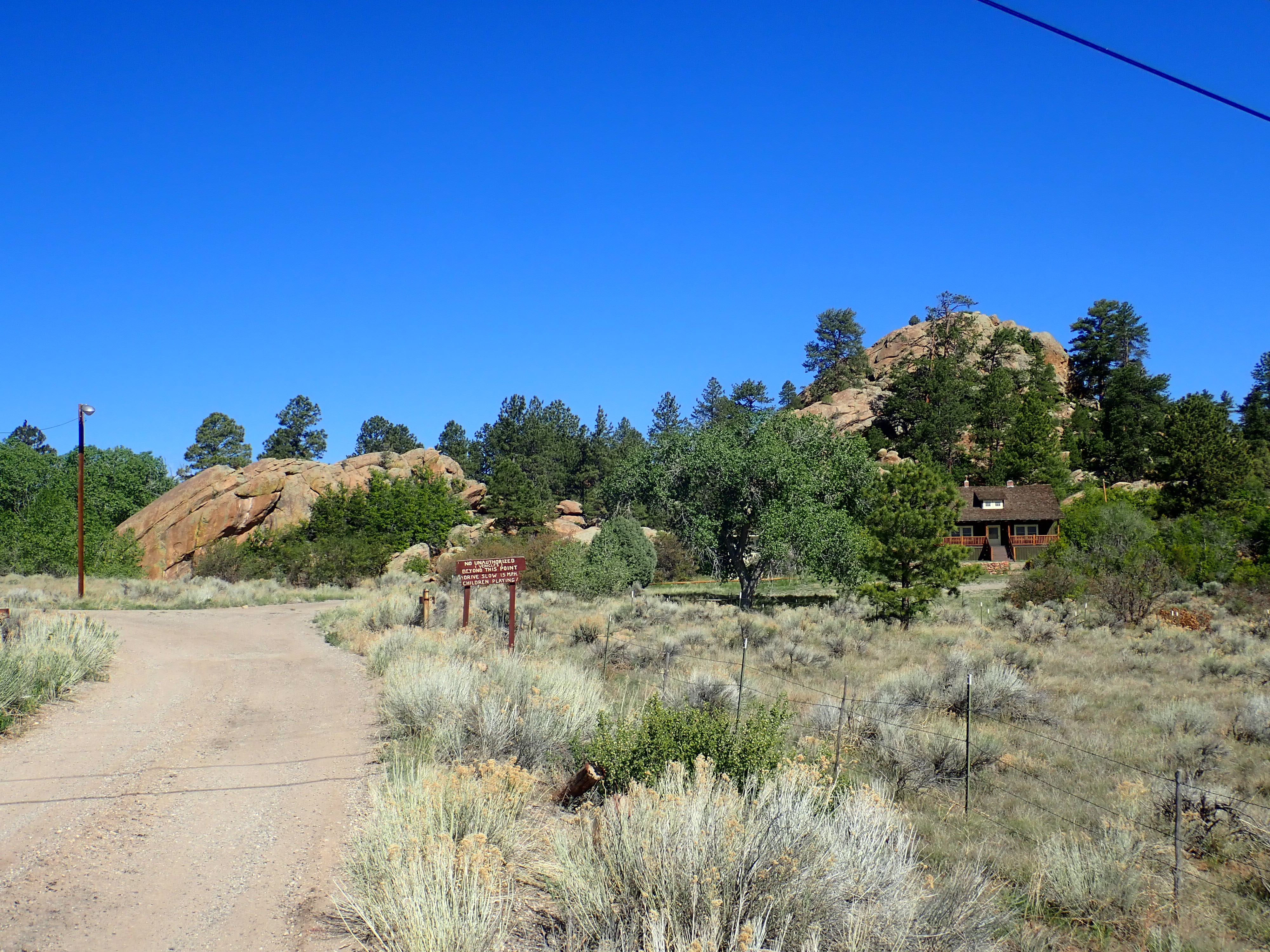 This image shows knolls underlain by Tres Piedras Orthogneiss, which underlies similar knolls in the area of Tres Piedras, New Mexico, USA